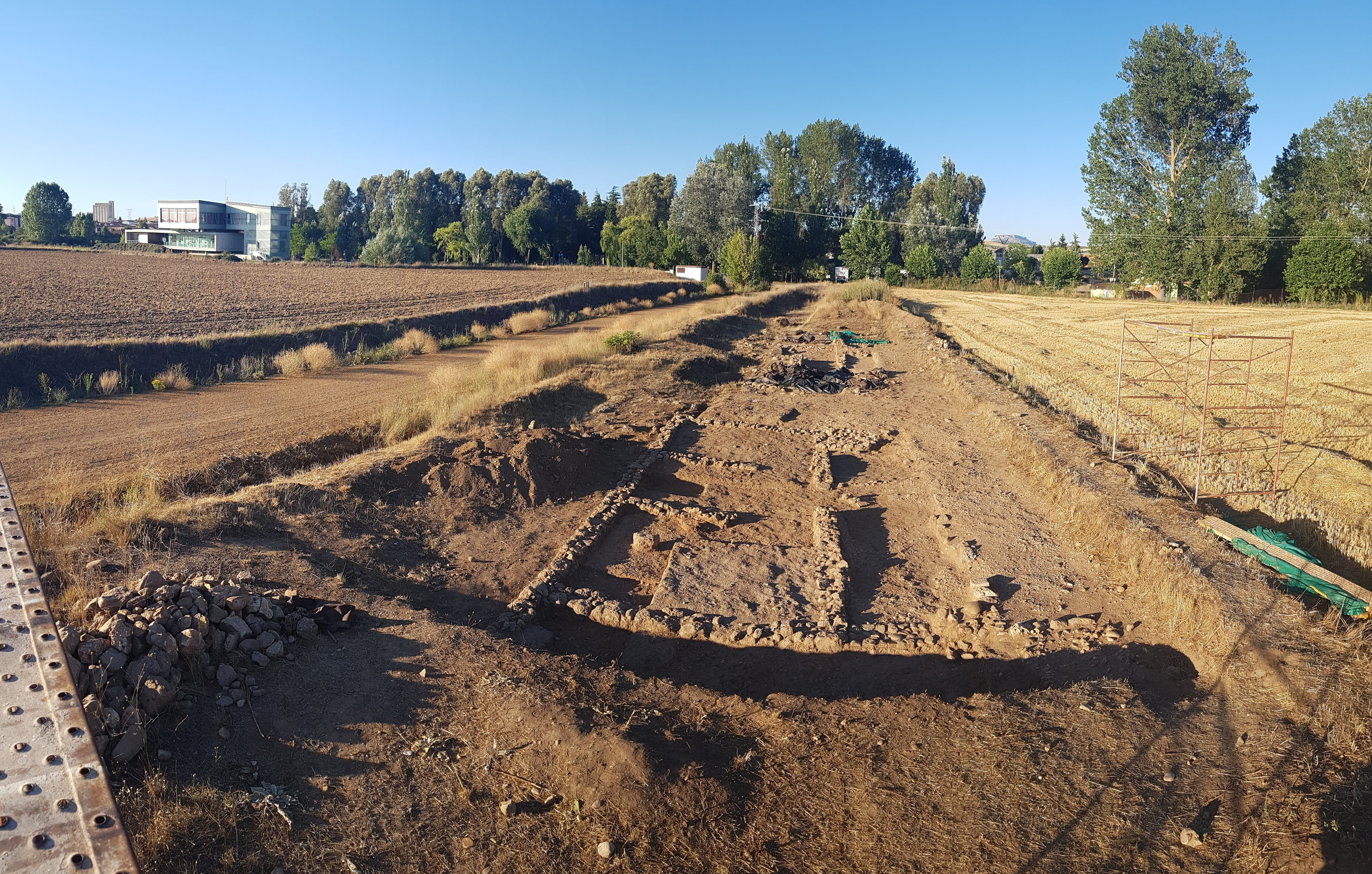 Archaeological excavations in the cannaba of Pisoraca (Herrera de Pisuerga, Castile and Leon).